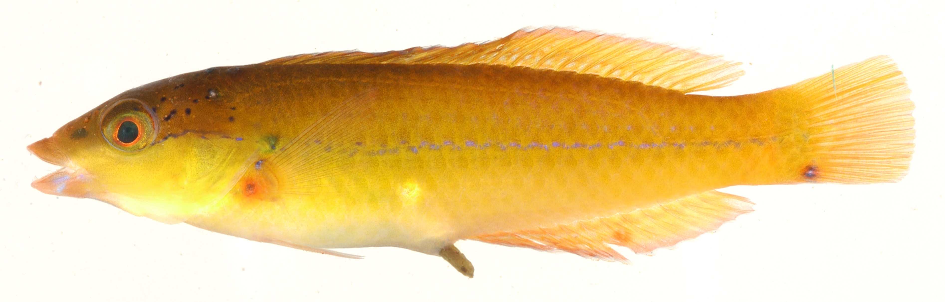 Description: The standard length of the initial phase of the yellowhead wrasse is sixty-two millimeters. This image was taken with a Nikon D1X 5.47-megapixel camera with a 105-millimeter f/2.8D AF Micro-Nikkor lens and dual Nikon SB28 flash units. Creator/Photographer: Belize Larval-Fish Group 2004 The Division of Fishes of the Smithsonian's National Museum Natural History has sent several teams to Belize in order to photograph larvae in the field. The 2004 team included Julie H. Mounts and Carole C. Baldwin from February 18 through 25, and David G. Smith, Lee A. Weigt, and Claudette Decourley from February 25 through March 11. Medium: Digital photograph Geography: Belize Date: 2004 Repository: National Museum of Natural History, Division of Fishes Image ID: halichoeres_garnoti_initial